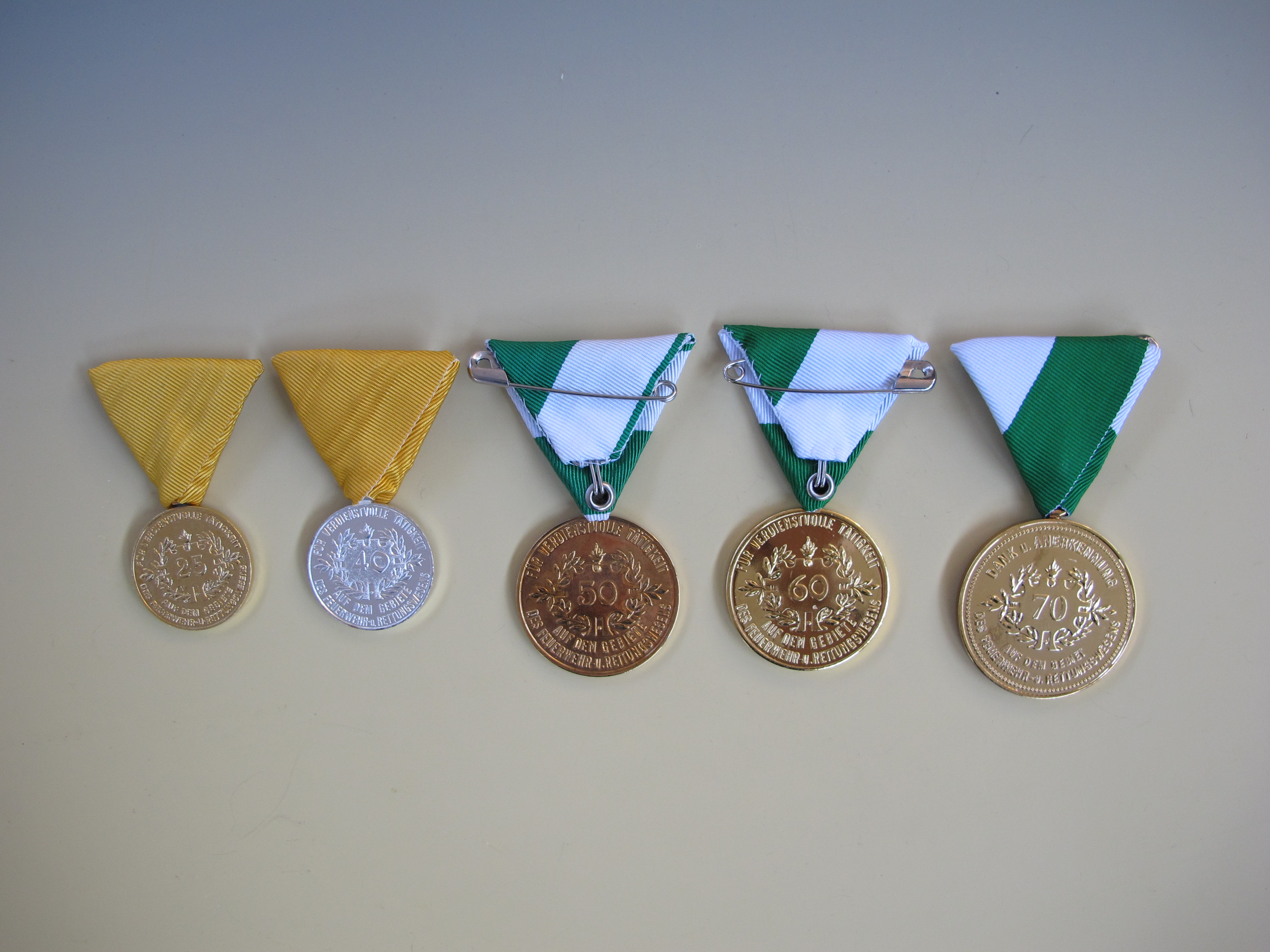 Firefighting in Styria